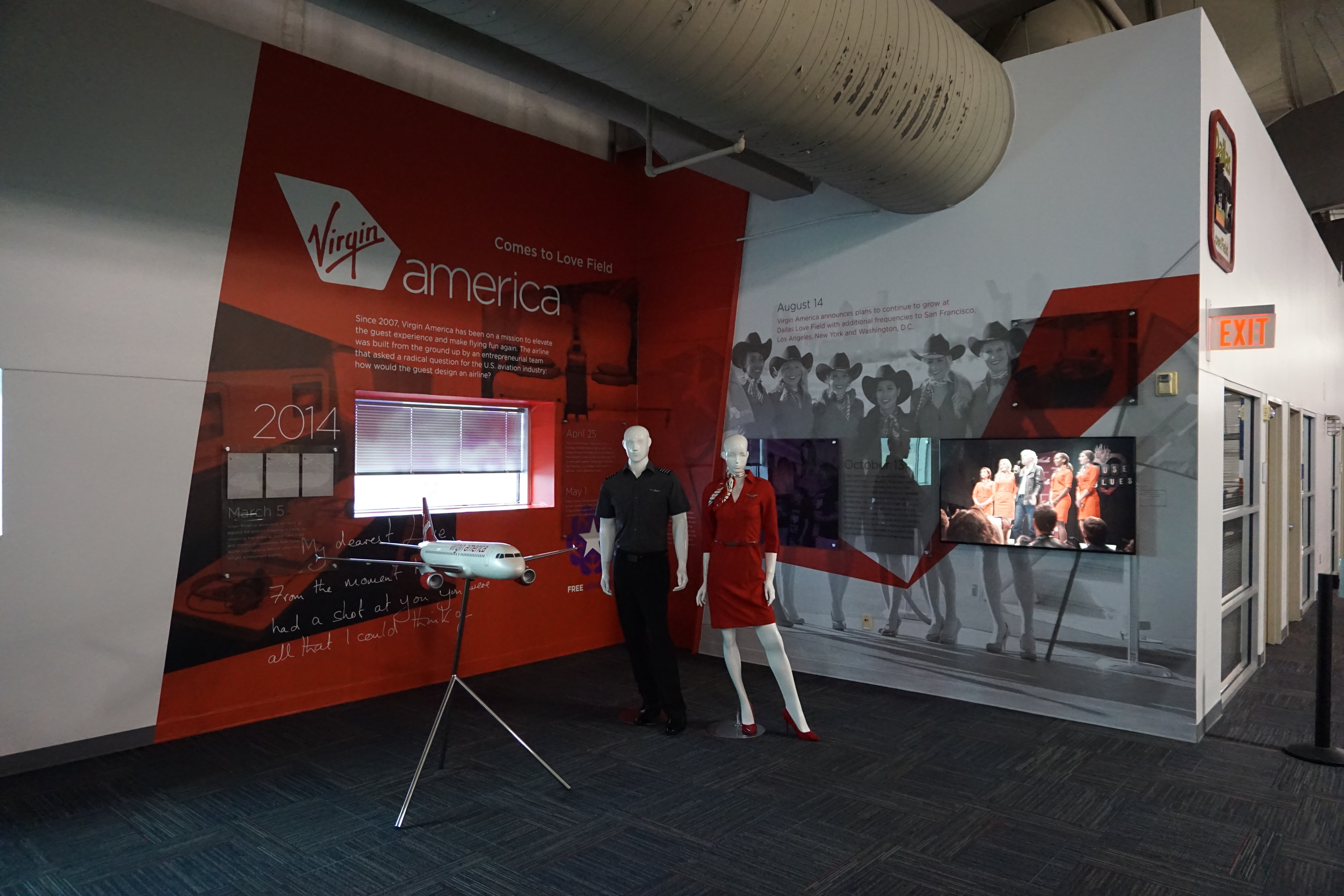 The Virgin America exhibit at the Frontiers of Flight Museum at Dallas Love Field in Dallas, Texas (United States).